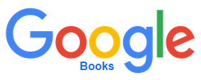 Logo of Google Books, introduced in September 2015.